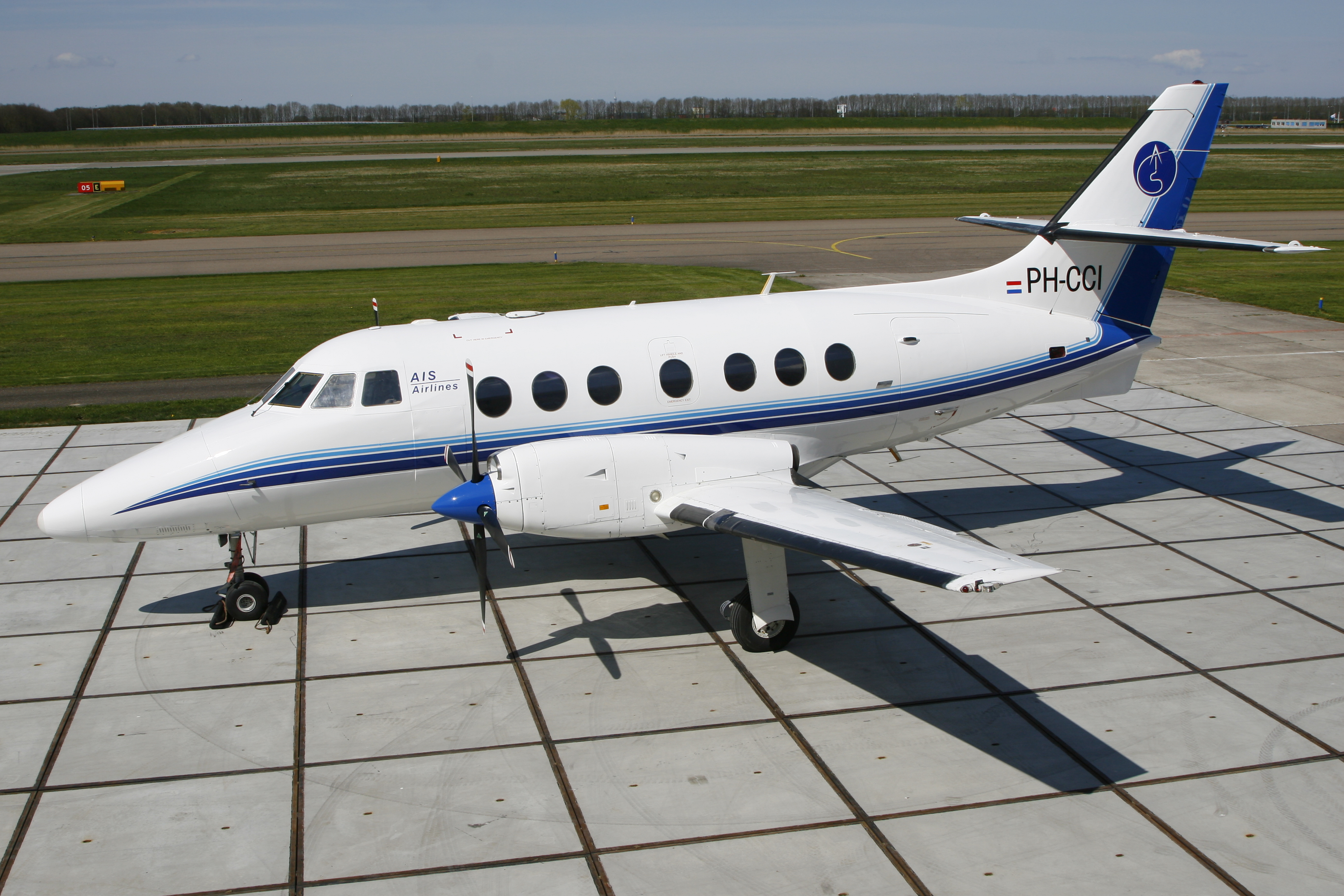 AIS Airlines Jetstream 32 (PH-CCI) op Lelystad Airport